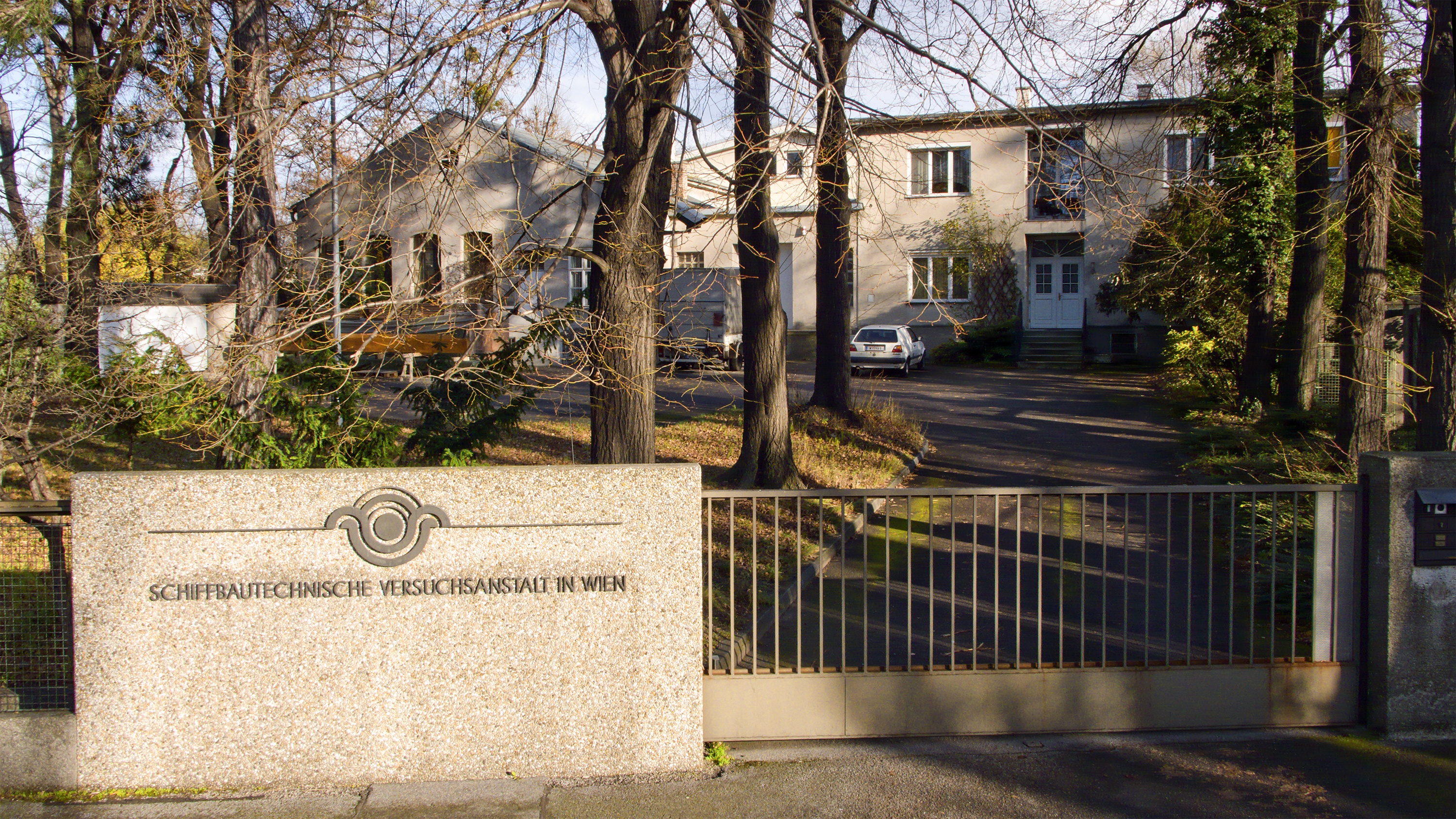 Schiffbautechnische Versuchsanstalt in Vienna Brigittenau